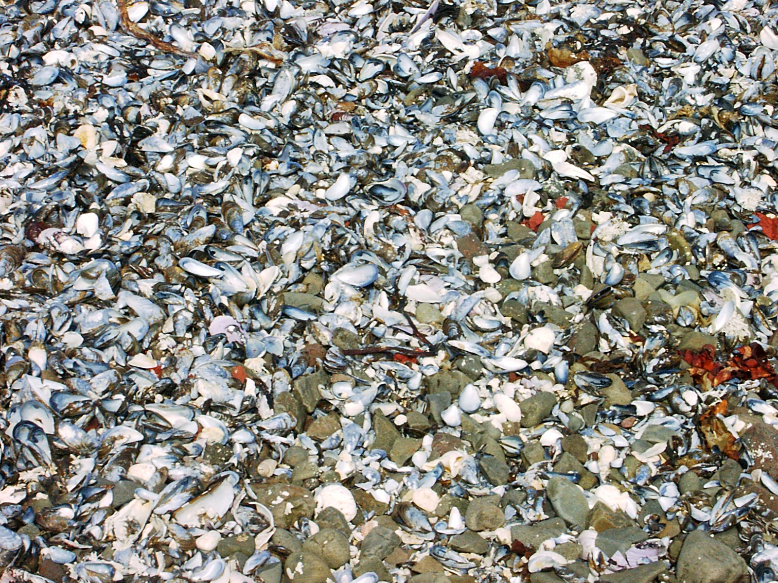 Mussels on a beach at Hindisvík in Iceland